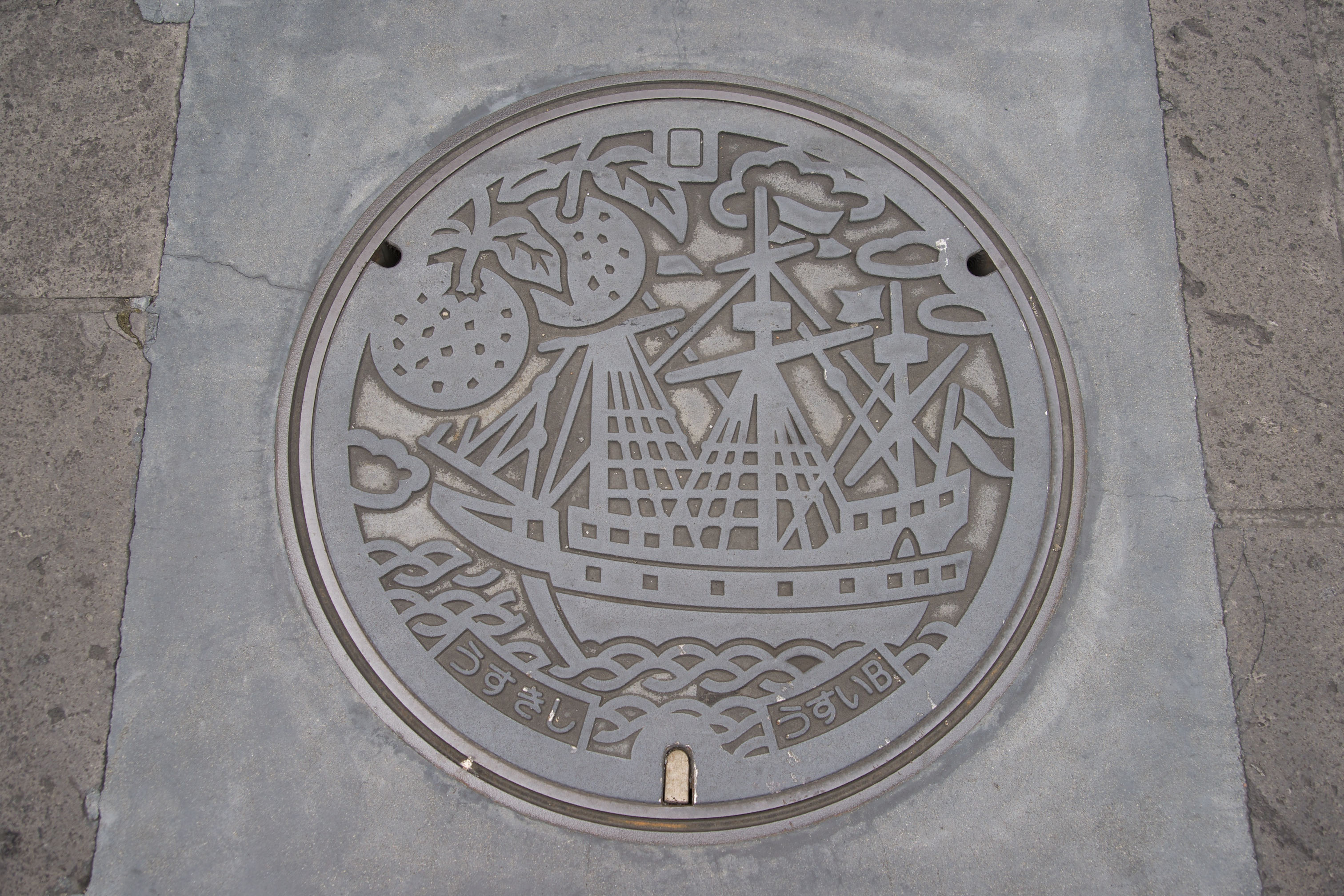 a water plate in Usuki